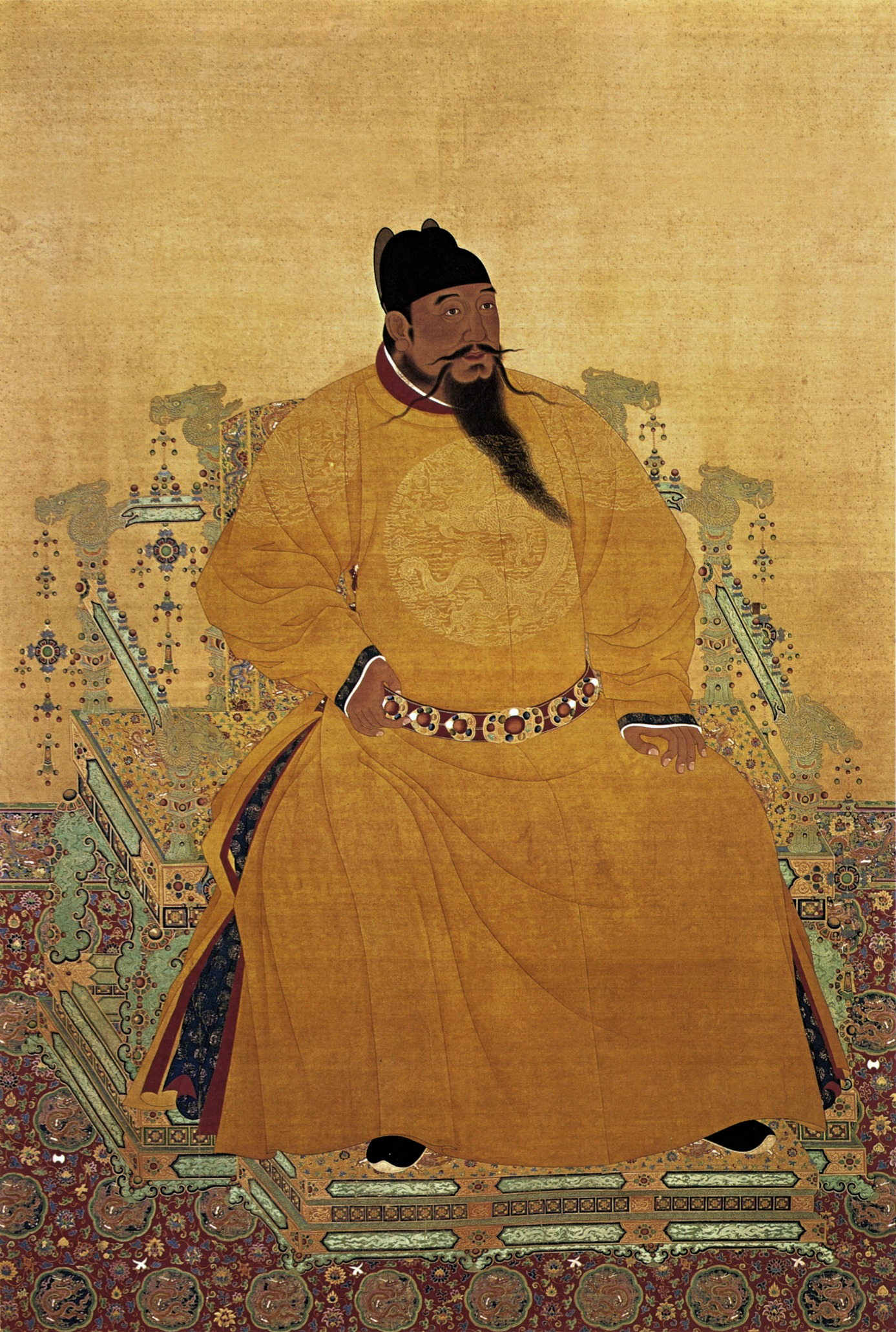 Emperor Chengzu of the Ming Dynasty, hanging scroll, ink and color on silk, 220 x 150 cm. Located at the National Palace Museum, Taibei. Chengzu is commonly called the Yongle Emperor. This picture shows him sitting in the 'Dragon' chair. Česky: Císař Jung-le z dynastie Ming, sedící na „dračím“ trůnu. Jungle vládl Číně v letech 1402–1425). Závěsný svitek, tuš a barva na hedvábí, 220 x 150 cm. Neznámý autor dynastie Ming (1368–1644), raného období. Dnes v Národním palácovém muzeu, Tchaj-pej, Tchaj-wan.